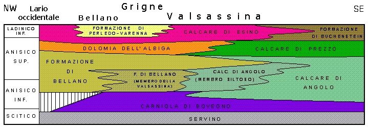 Stratigraphic scheme of Anisian (Middle Triassic p.p.) in central-western Lombardy (northern Italy).